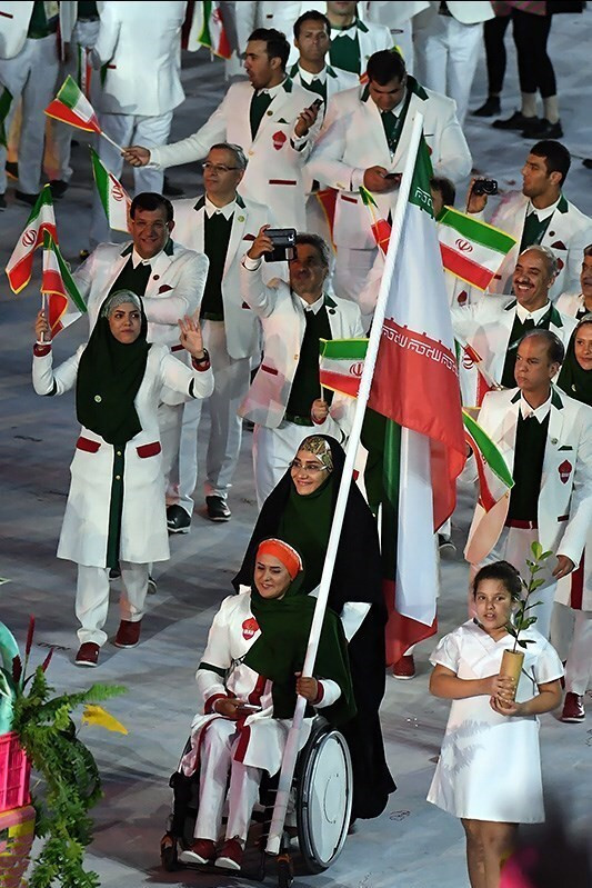 2016 Summer Olympics opening ceremony - photo news agency Tasnimnews